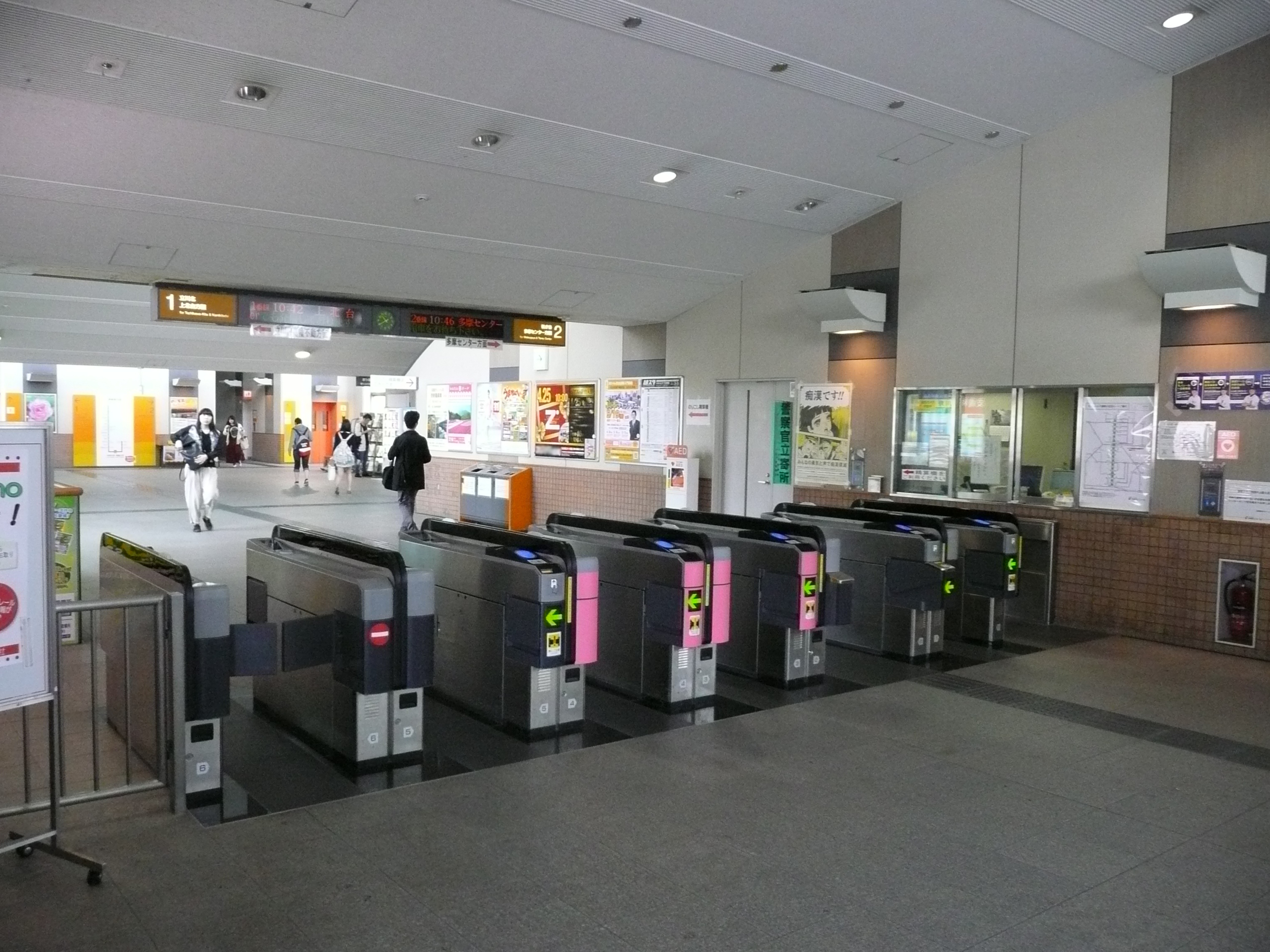 Ticket gate of Chūō-Daigaku-Meisei-Daigaku Station